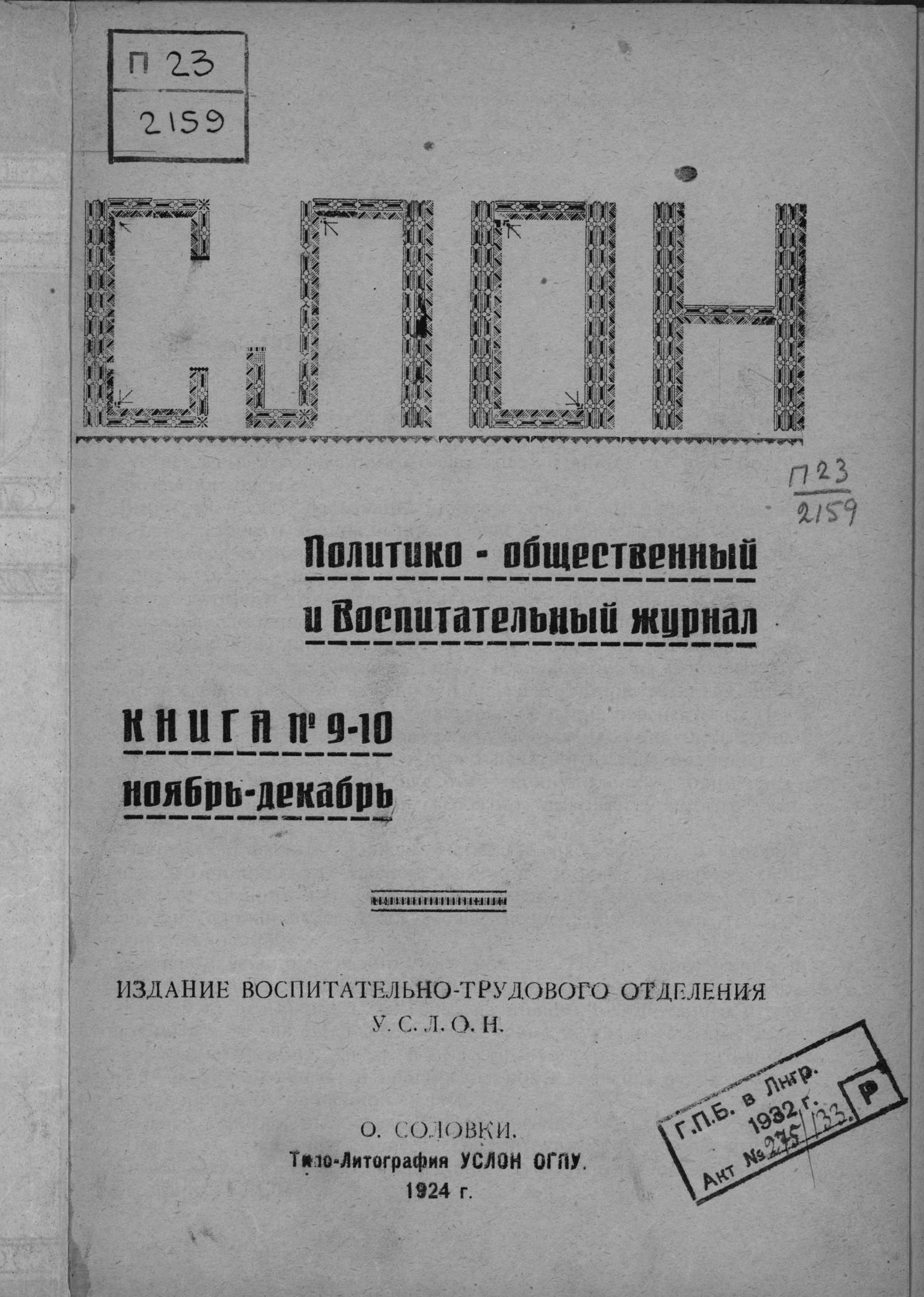 Solovetskie ostrova 1924